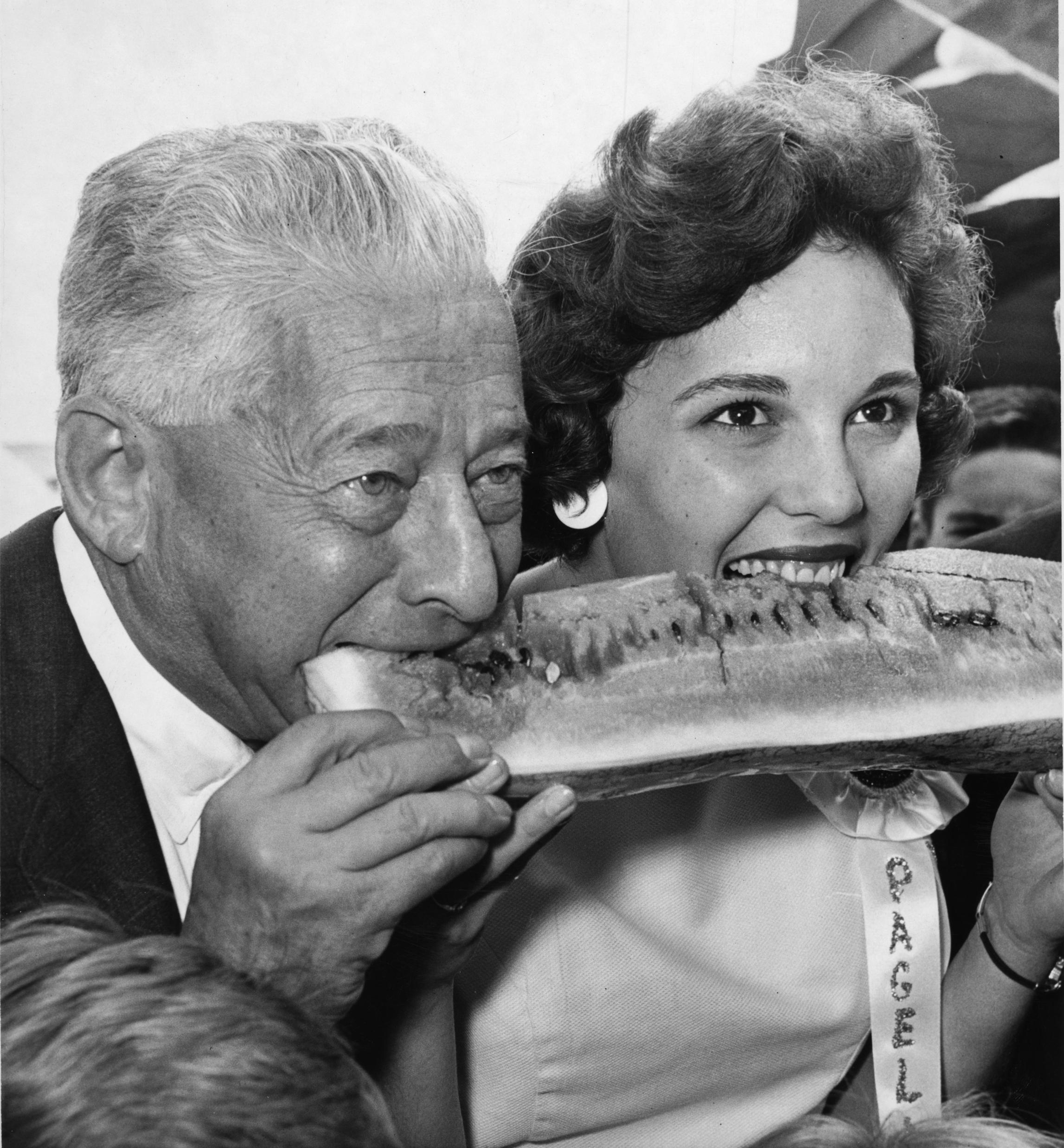 Abe Stark, New York City council president, with Mimi Fellers, "Watermelon Queen" from South Carolina, at the Brooklyn Terminal Market